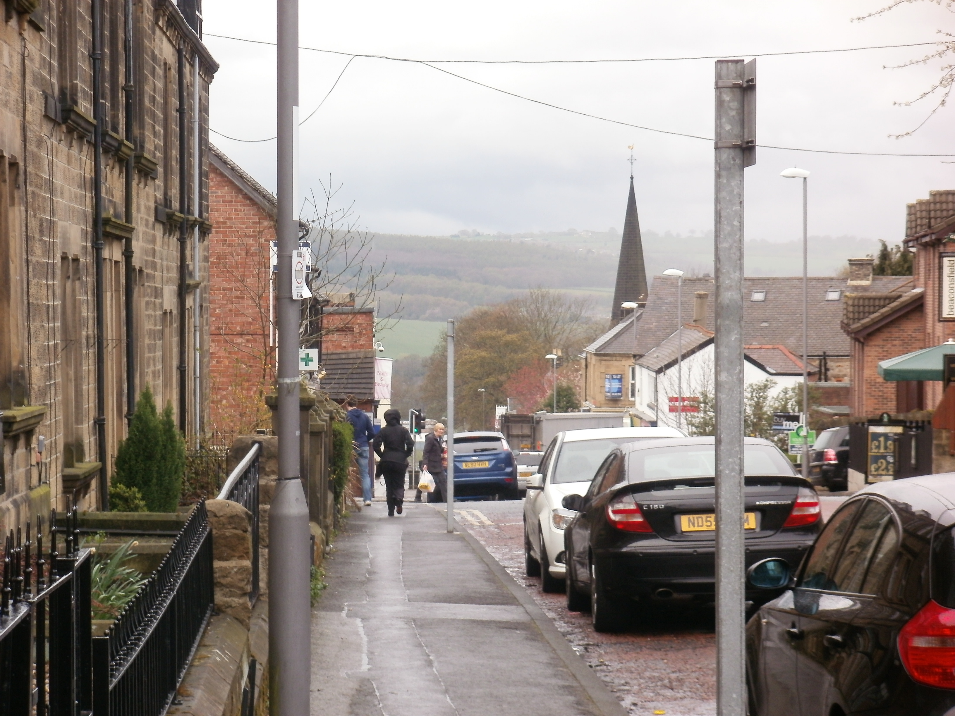 View west along Beaconsfield Road, Low Fell, Gateshead, Tyne and Wear, toward the junction with Durham Road. The spire is that of St Helen's parish church. The land falls away through the Team Valley toward Lobley Hill and beyond.